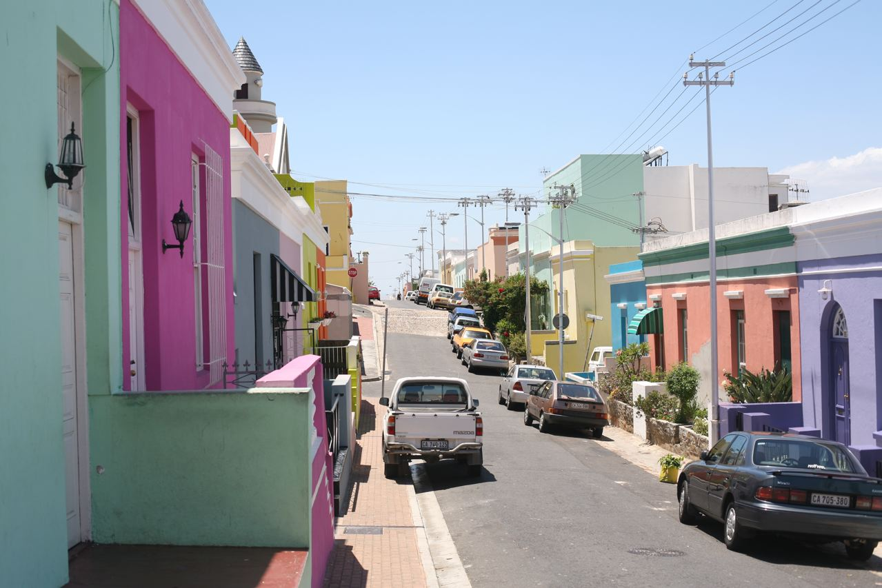 The Bo-Kaap in Cape Town, South Africa in January 2006.